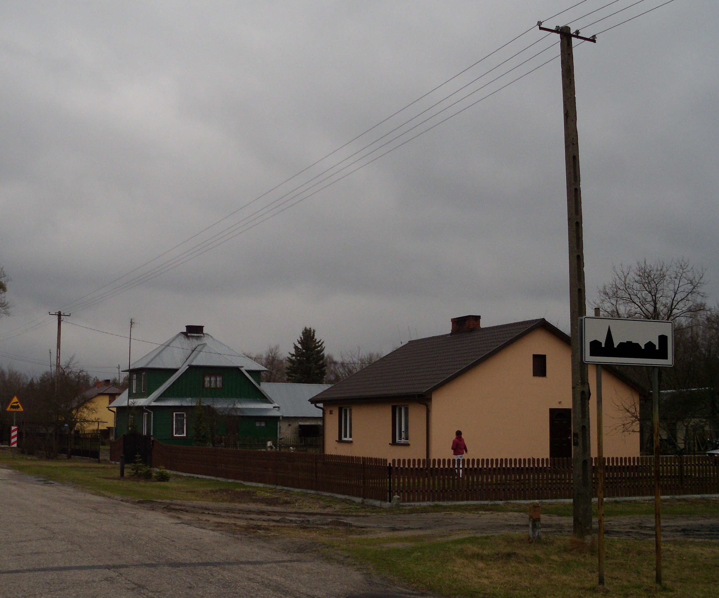 Residential houses in a "Sobibór Stacja" (train station) colony of Sobibór, Poland.